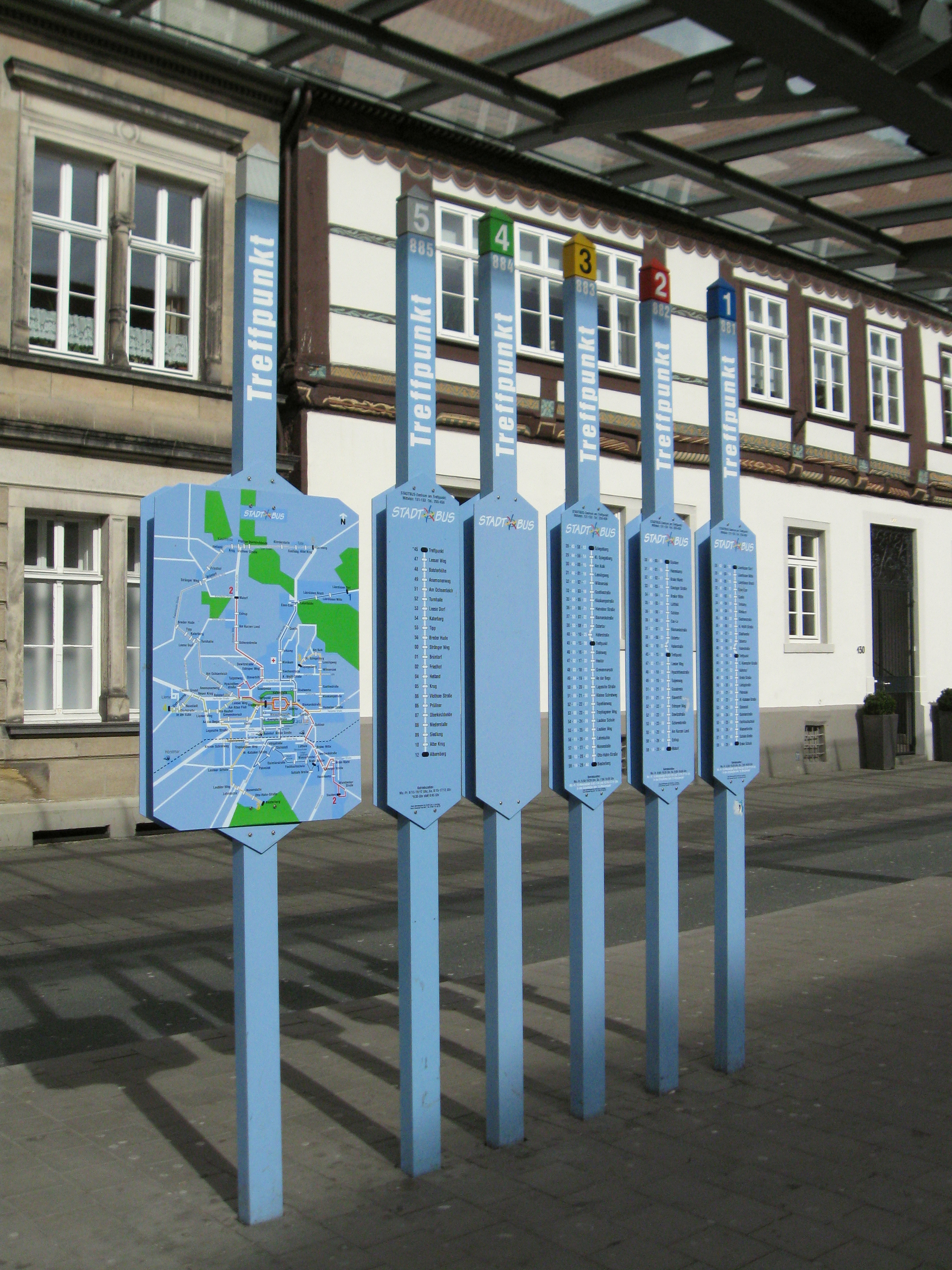 Bus stop “Treffpunkt” (“Meeting point”) in Lemgo, District of Lippe, North Rhine-Westphalia, Germany.